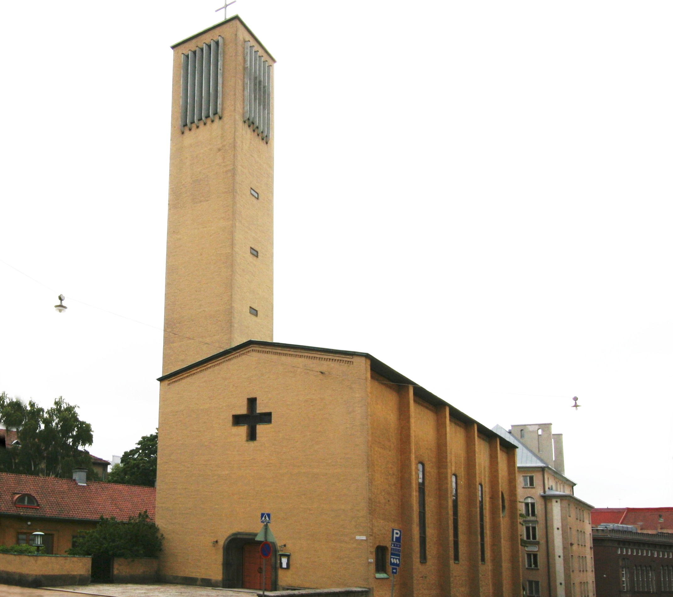 Olaus Petri church, Helsinki